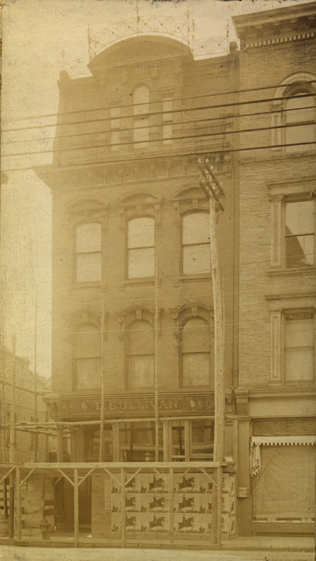 Leader Newspaper Office, King St. E., s.w. corner Leader Lane. This image is available from the Toronto Public Library under the reference number B 10-10cThis tag does not indicate the copyright status of the attached work. A normal copyright tag is still required. See Commons:Licensing for more information. English | français | +/−